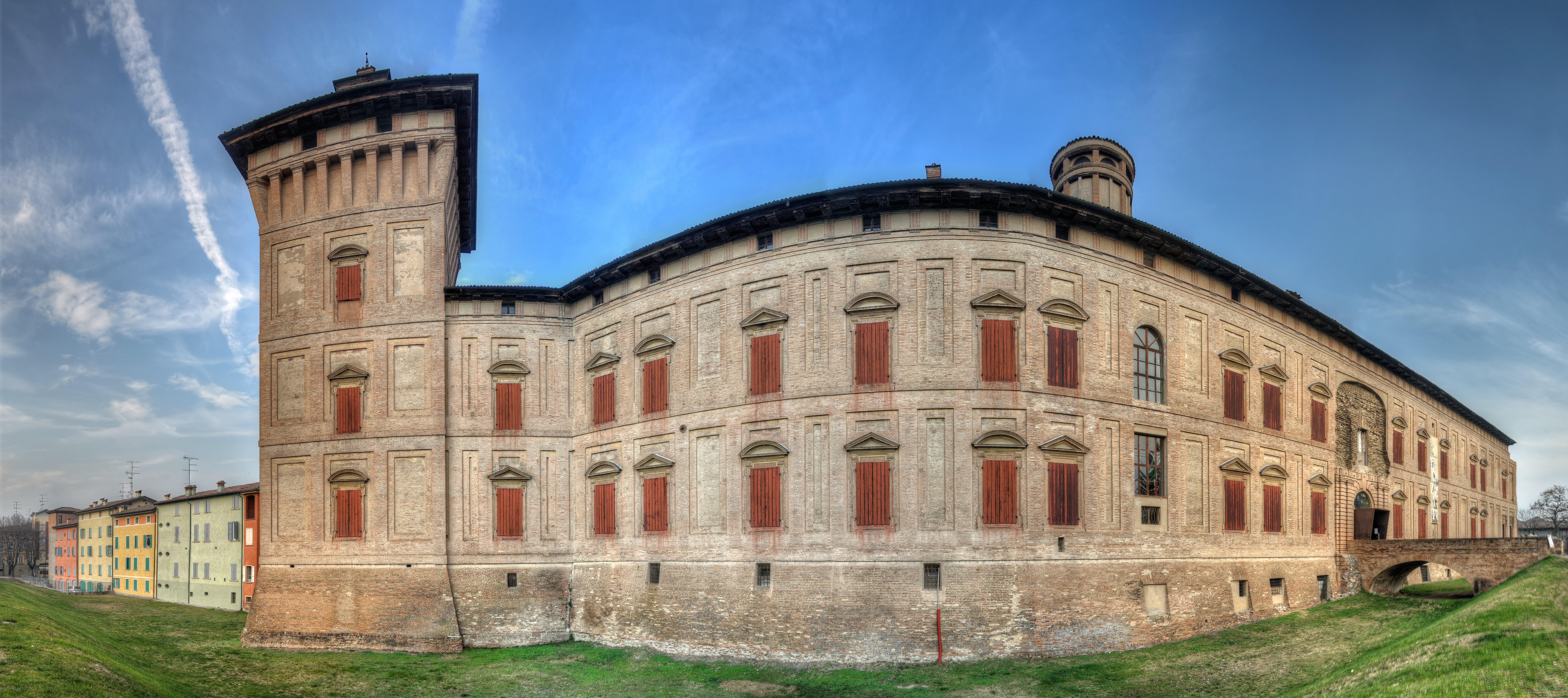 Rocca dei Boiardo - Scandiano, Reggio Emilia, Italia